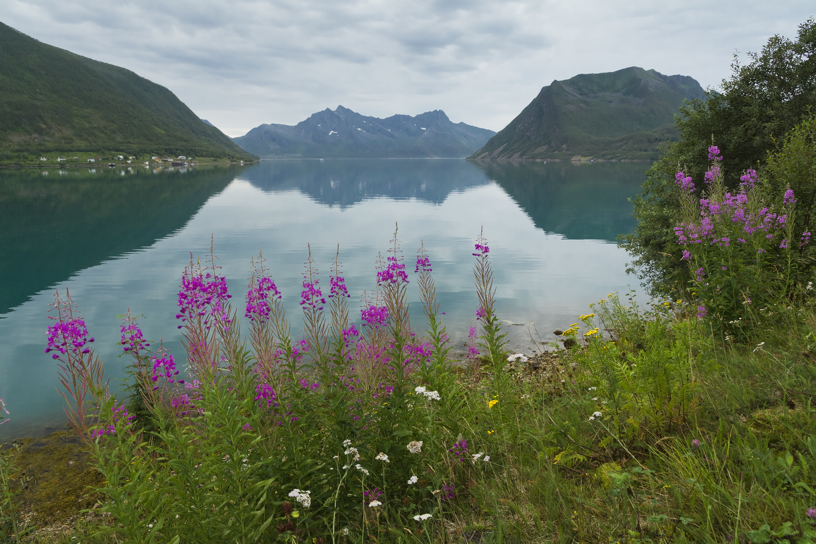 A view over Sifjorden from Sifjord in Senja, Troms, Norway in 2014 August. The plants below are Chamerion angustifolium, also known as rosebay willowherb, great willow-herb or fireweed.